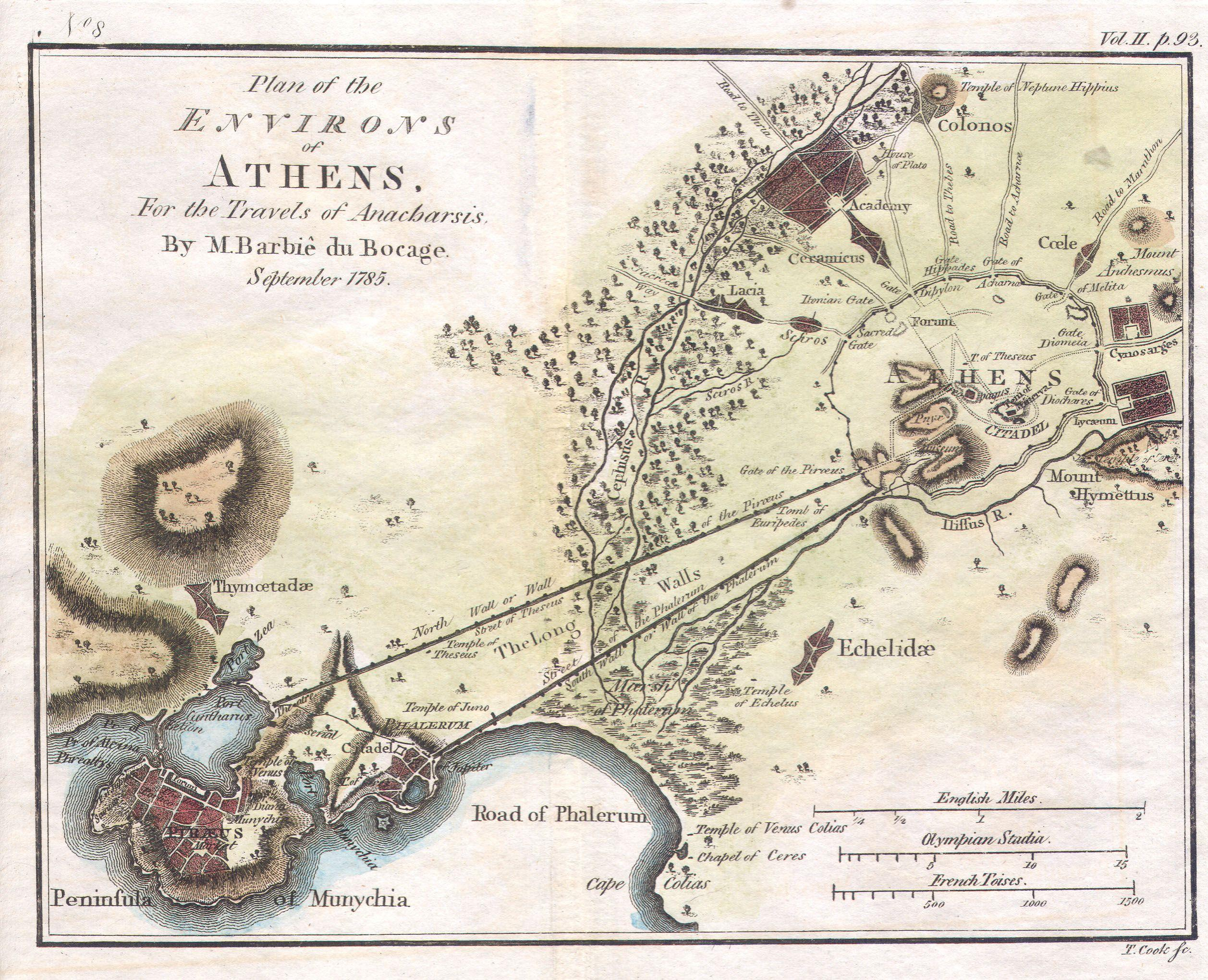 This lovely little map or city plan of Athens in Ancient Greece, was prepared by M. Barbie de Bocage in 1784 for the “Travels of Anarcharsis”. Athens, capital of the Athenian Empire, was the heart of Ancient Greek culture and the quintessential Ancient Greek city state. This plan of Athens, based on excavations and ancient sources offers impressive and accurate detail.